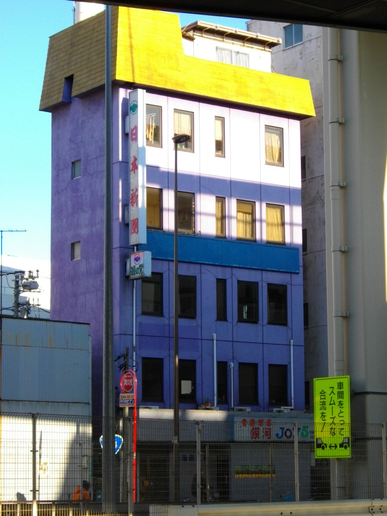 Green Party Mitsuhashi Faction Headquarters